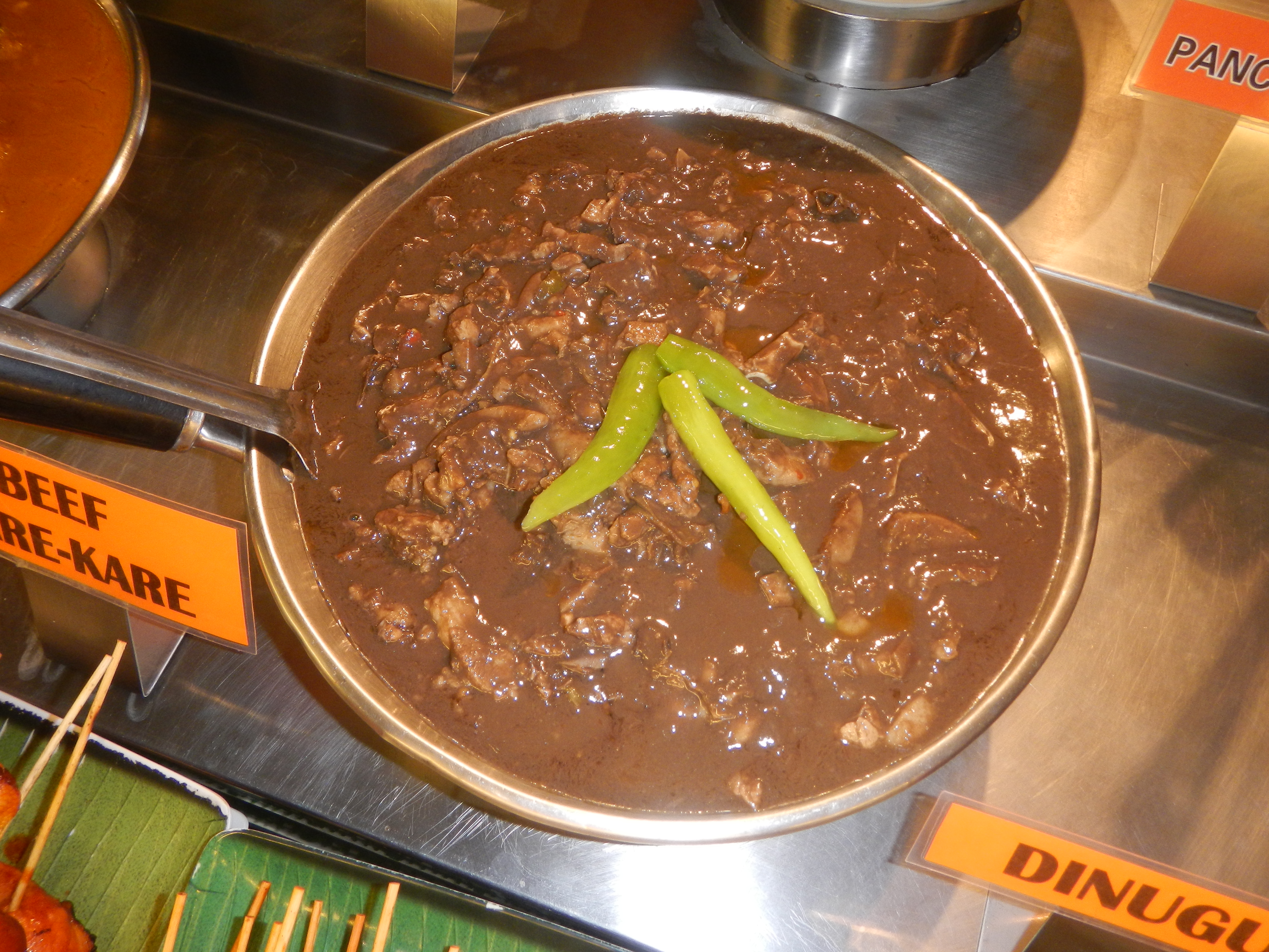 Philippine cuisine List of Philippine dishes Banana ketchup Lechon sauce Otap (food) Turon (food) Bicol express Laing Kaldereta Dinuguan Bopis Lechon kawali Longaniza Longaballs Tocneneng Barangay Pagala, 14°58'14"N 120°53'26"E Baliuag, Bulacan, Bulacan, along DRT Highway or Maharlika Highway (Cagayan Valley Road, Baliuag-Pulilan-Guiguinto, Bulacan) Pan-Philippine Highway, also known as the Maharlika "Nobility/freeman" Highway or Asian Highway 26, Cagayan Valley Road (Note: Judge Florentino Floro, the owner, to repeat, Donor Florentino Floro of all these photos hereby donate gratuitously, freely and unconditionally all these photos to and for Wikimedia Commons, exclusively, for public use of the public domain, and again without any condition whatsoever).